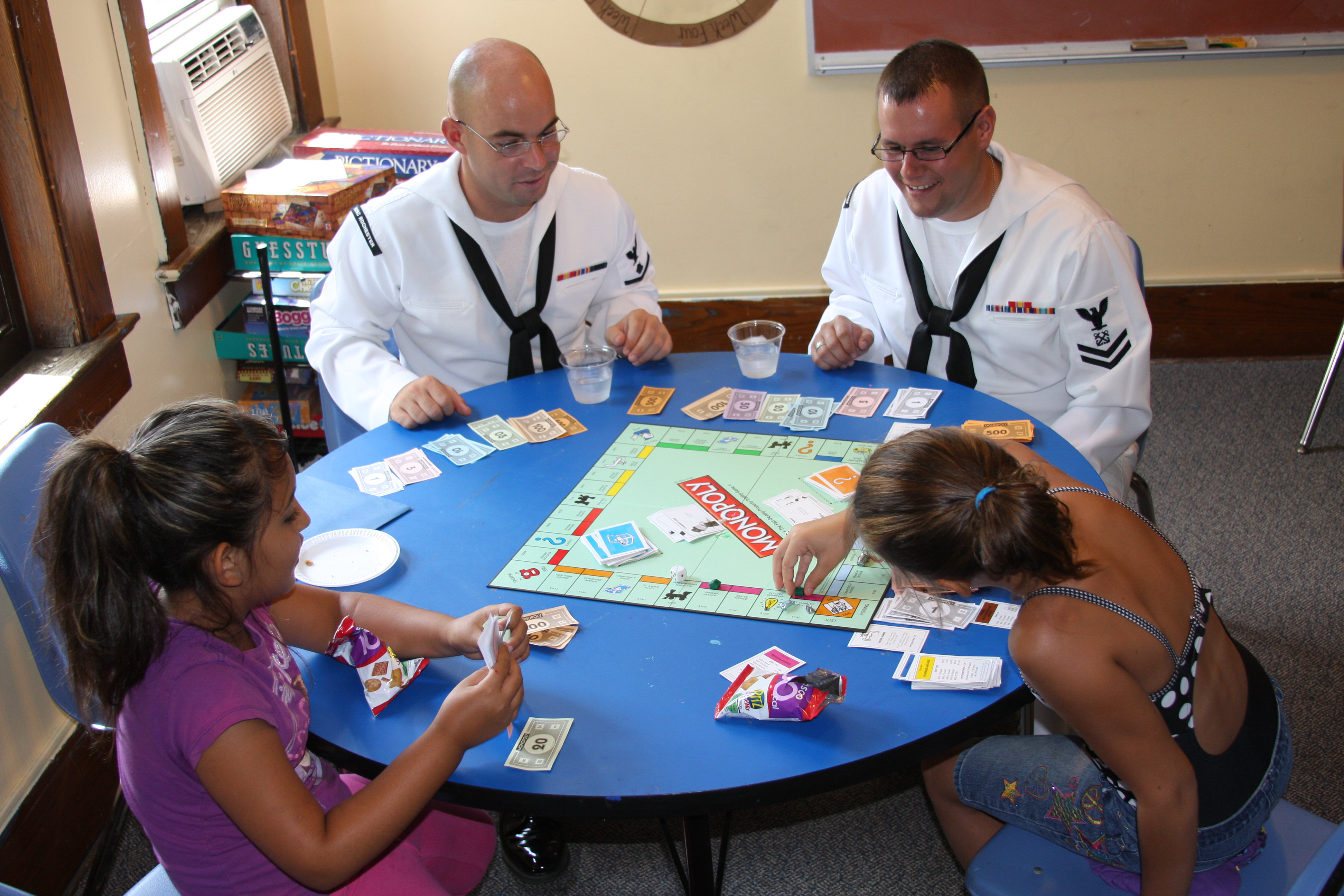 ROCHESTER, N.Y. (July 13, 2011) Personnel Specialist 2nd Class James Vail, left, and Boatswain's Mate 2nd Class Nathaniel Eaton, both assigned to Navy Operational Support Center Rochester, play board games with children at the Cameron Community Ministries during Rochester Navy Week, one of 21 Navy Weeks planned across America this year. Navy Weeks are designed to showcase the investment Americans have made in their Navy and increase awareness in cities that do not have a significant Navy presence. (U.S. Navy photo by Chief Mass Communication Specialist Steve Carlson/Released)